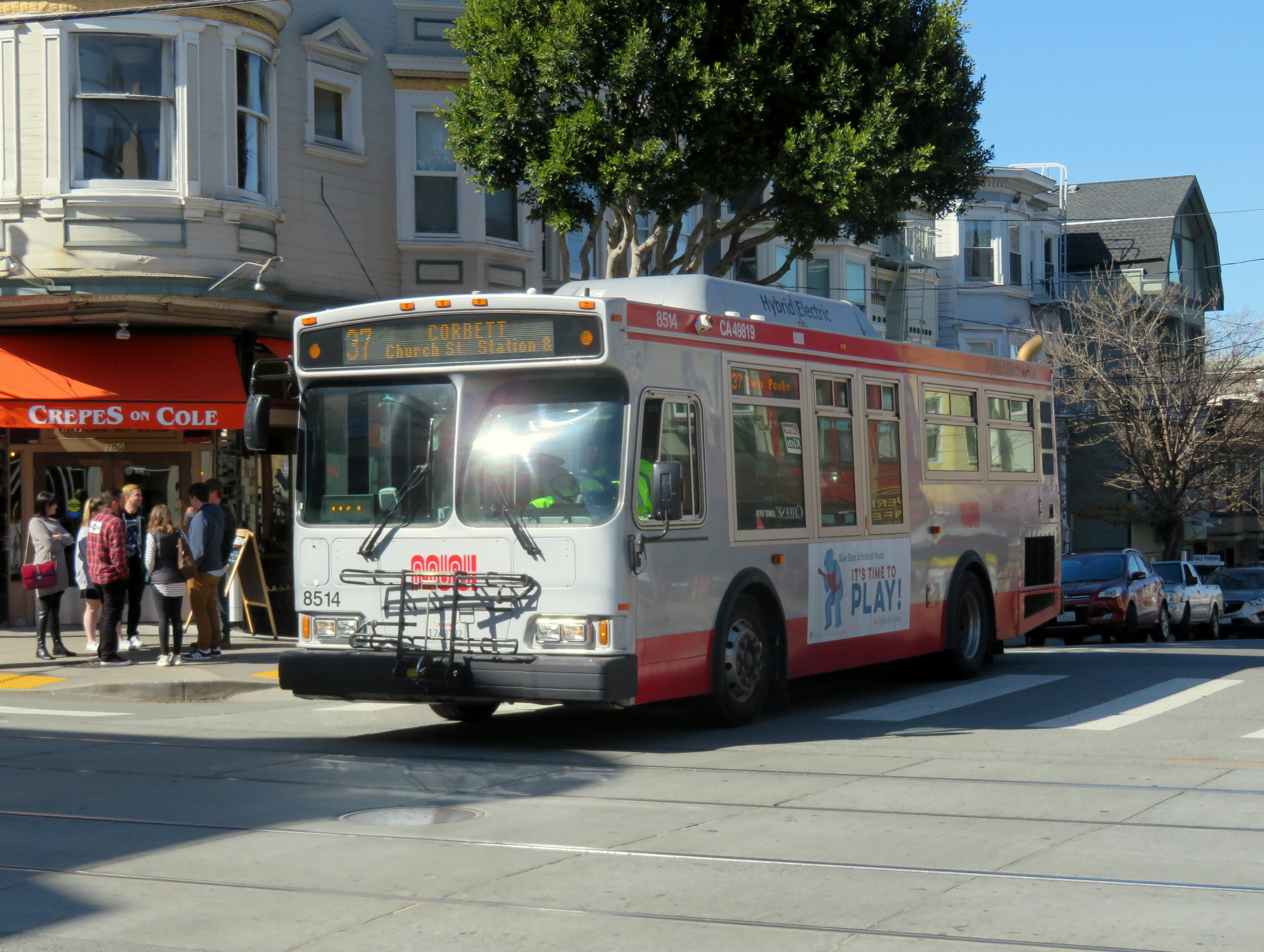 Muni route 37 bus in Cole Valley in February 2018